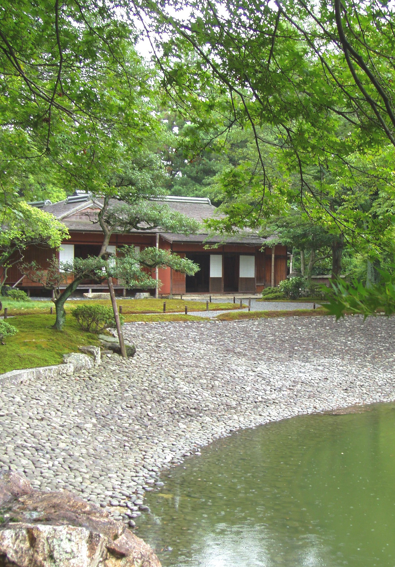 Sento Imperial Palace, Kyoto, Japan - Seika-tei with beach.